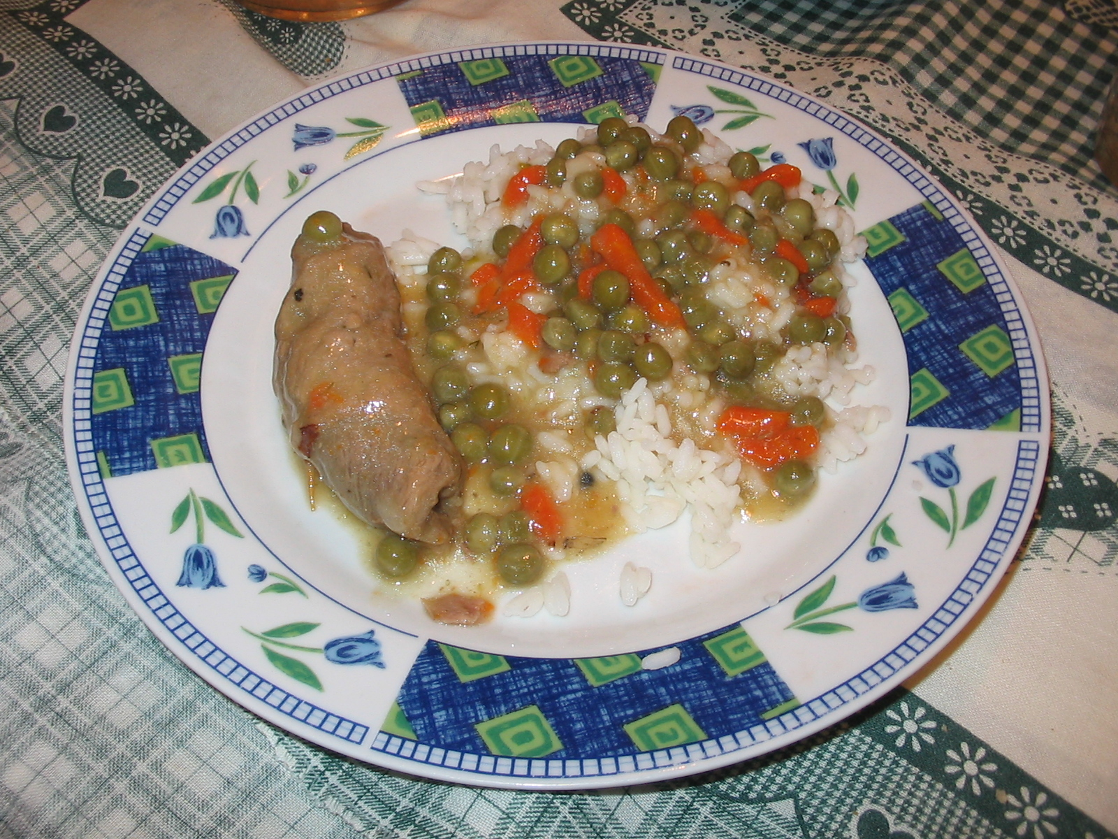 Veal krucheniki (ukrainian zrazy, meat roulade) served with rice and vegetables